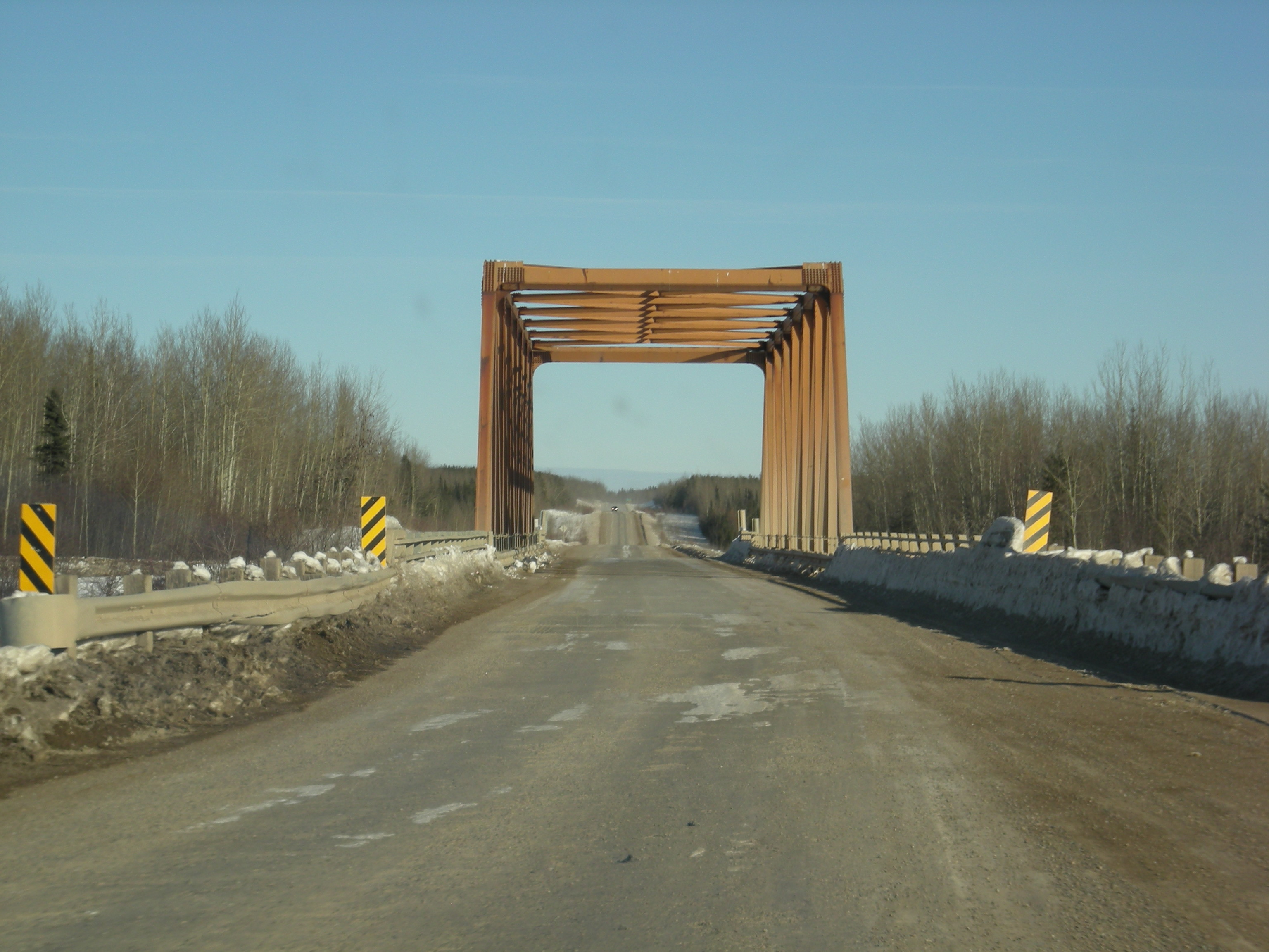 Brown single vehicle bridge on Provincial Road 280